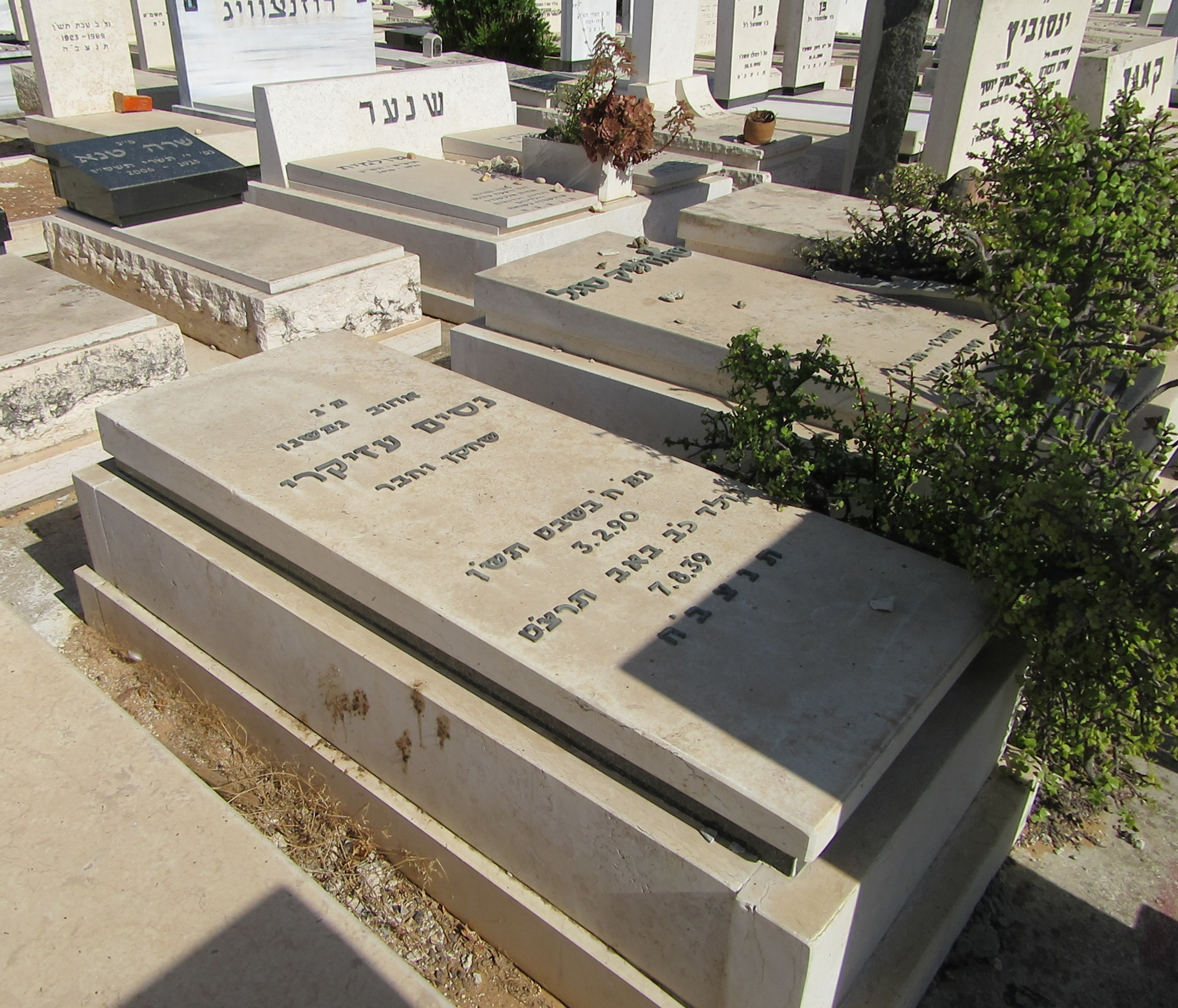 Grave of Nisim Azikri